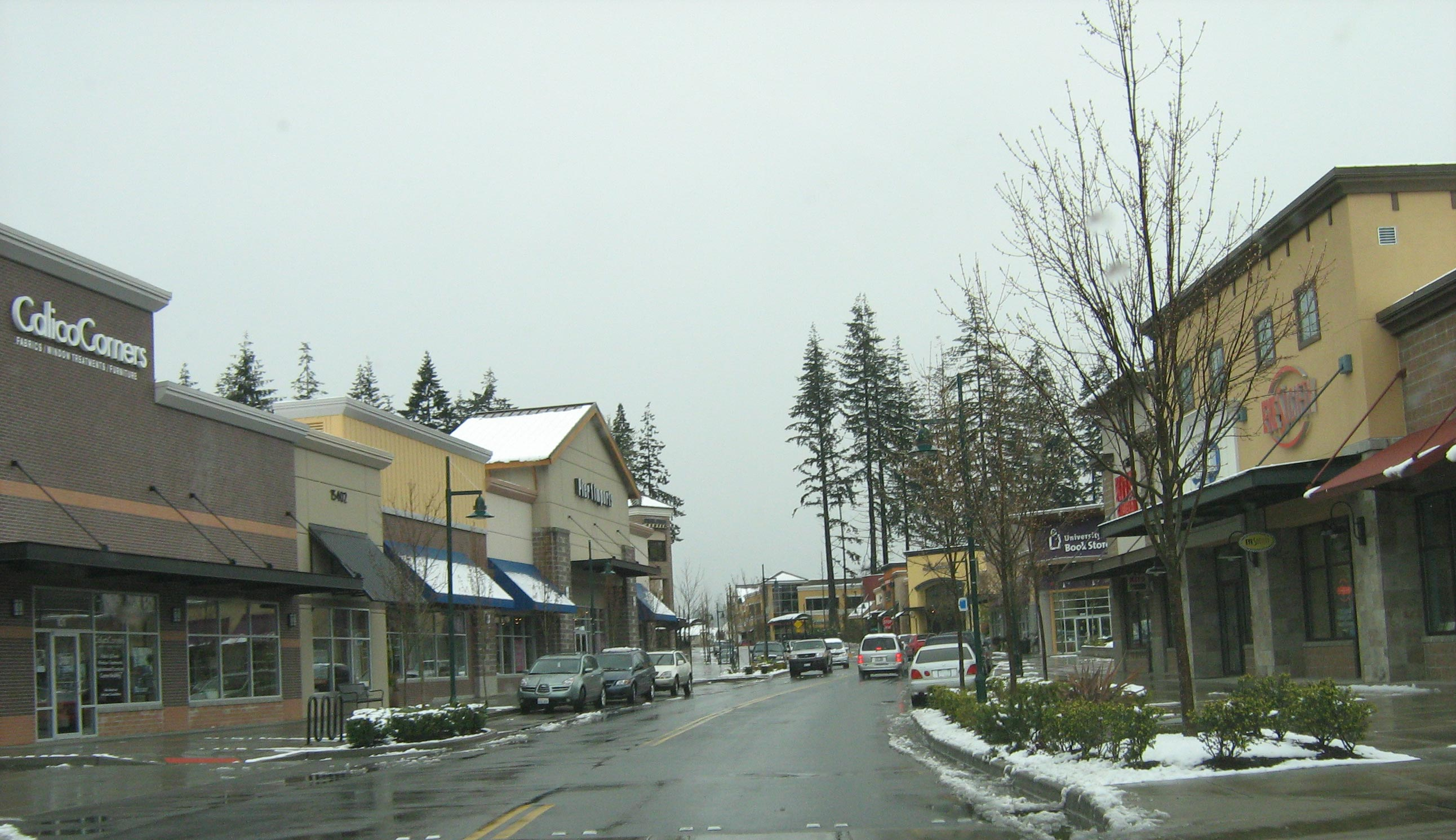 Main Street through the Mill Creek Town Center in Mill Creek, Washington